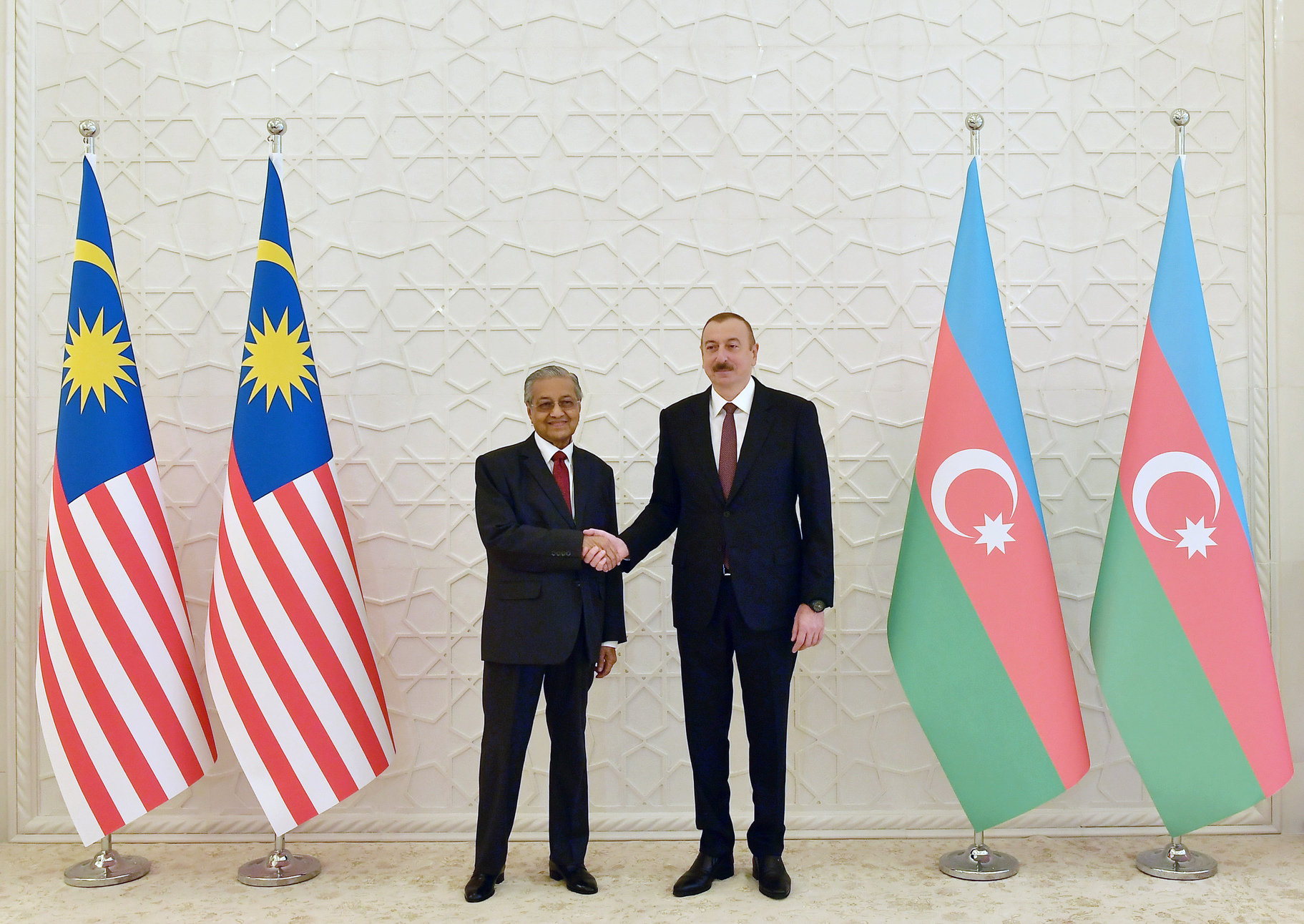 Ilham Aliyev met with Prime Minister of Malaysia Mahathir Mohamad